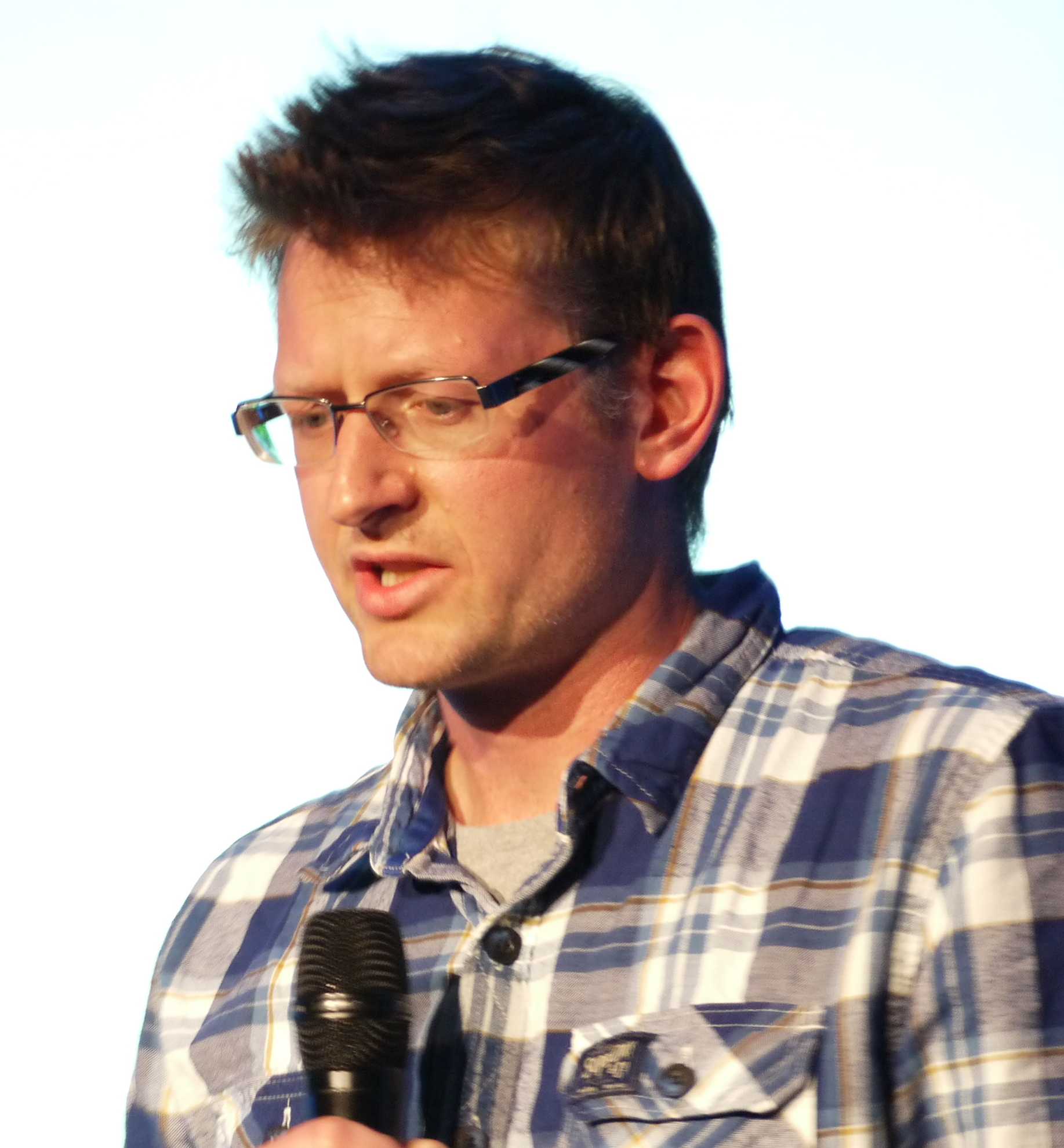 The God Species: How the Planet Can Survive the Age of Humans